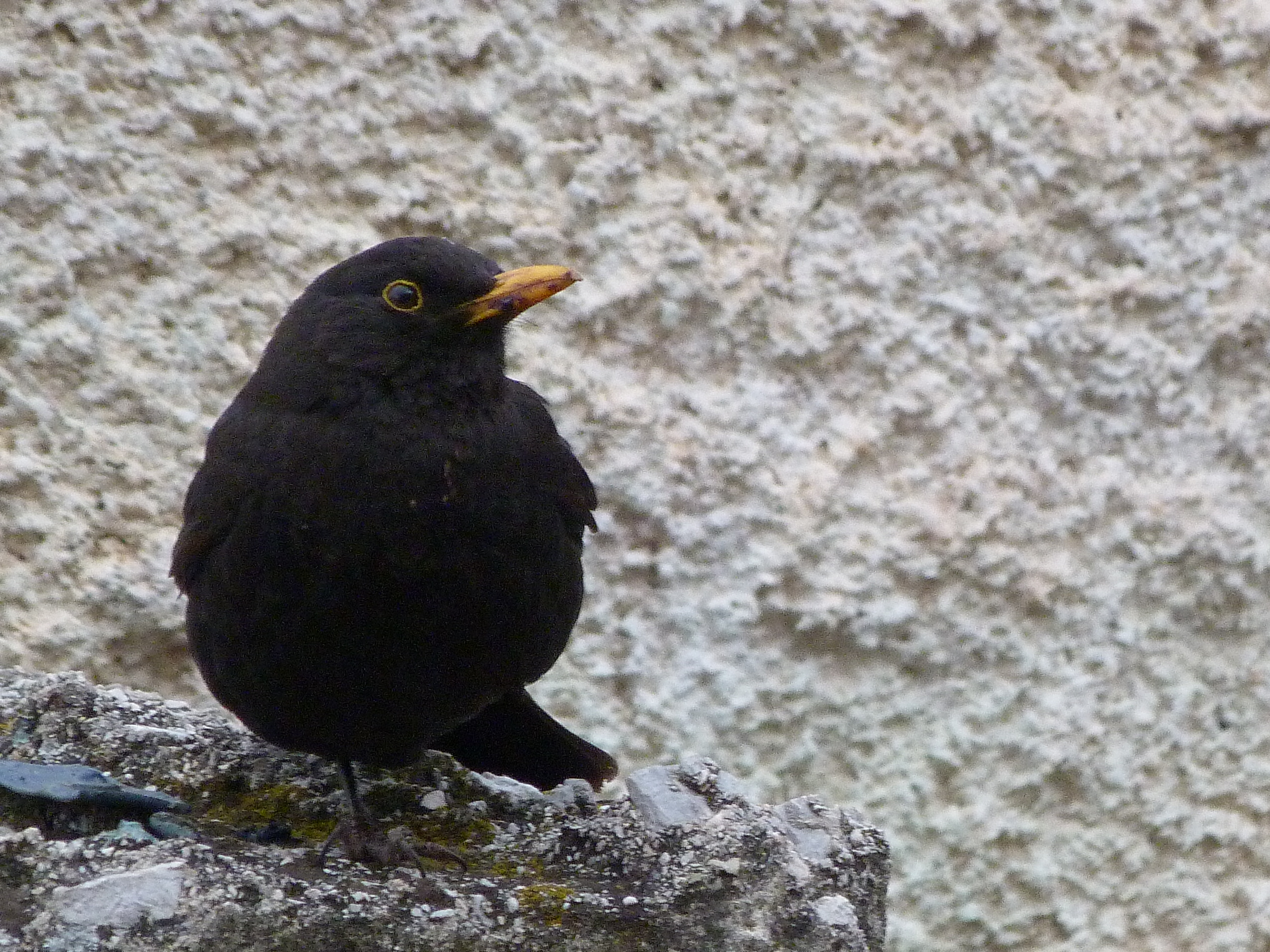 The Common Blackbird (Turdus merula) is a species of true thrush. It breeds in Europe, Asia, and North Africa, and has been introduced to Australia and New Zealand.